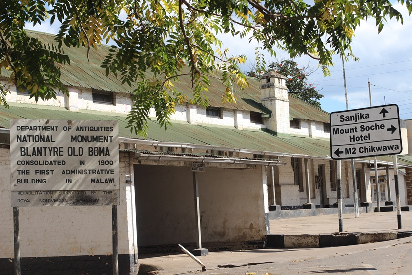 Old Boma Building, Blantyre. Old colonial administration area